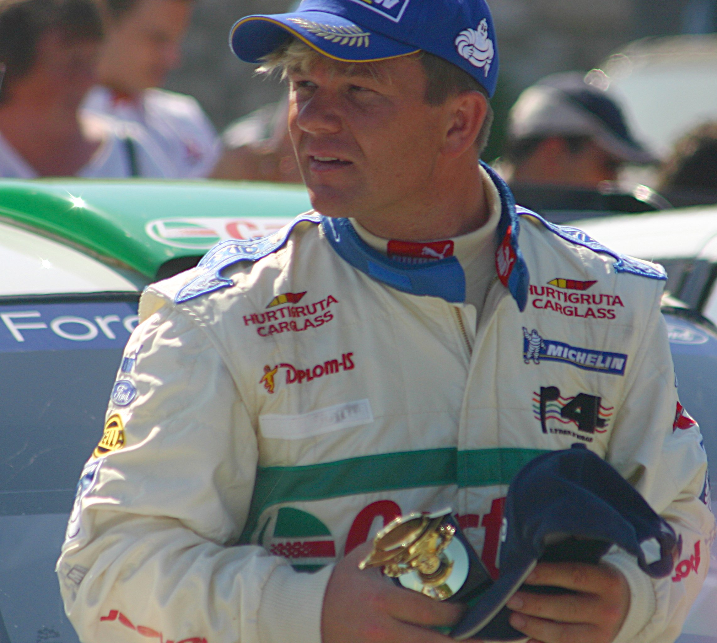 Henning Solberg at the 2005 Cyprus Rally.